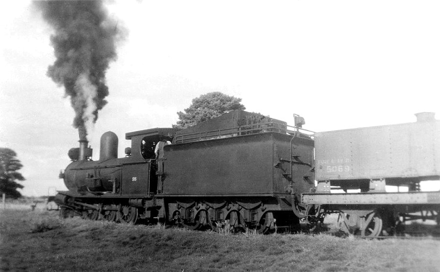 Y98 getting ready to leave Glencoe South Australia, for last time to Mount Gambier. July 1957.